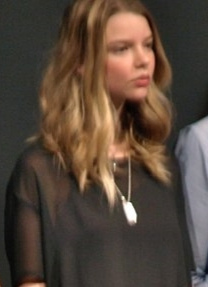 "The Witch," Sundance 2015